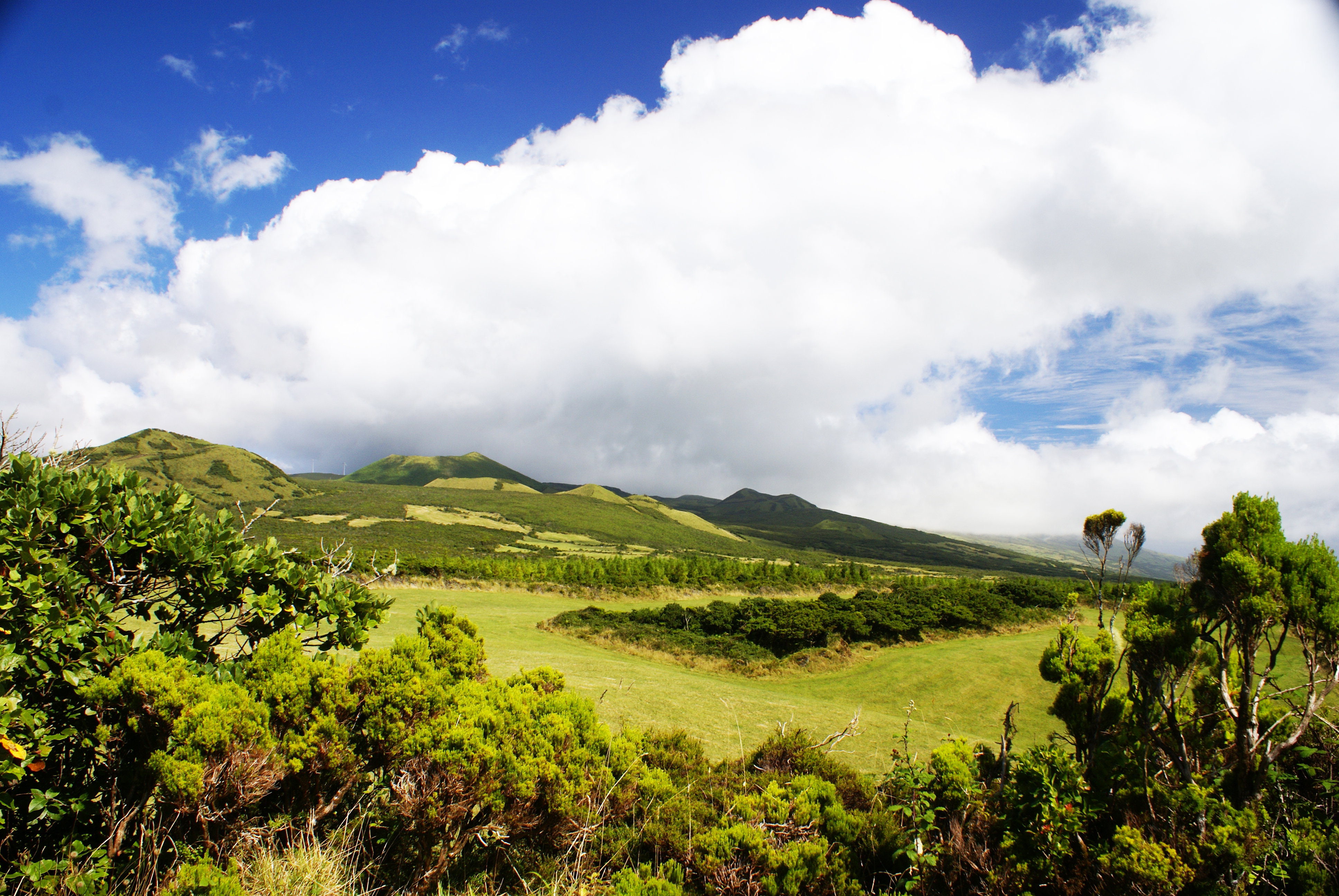 Interior montanhoso da ilha do Pico, paisagem sempre verde, Açores, Portugal